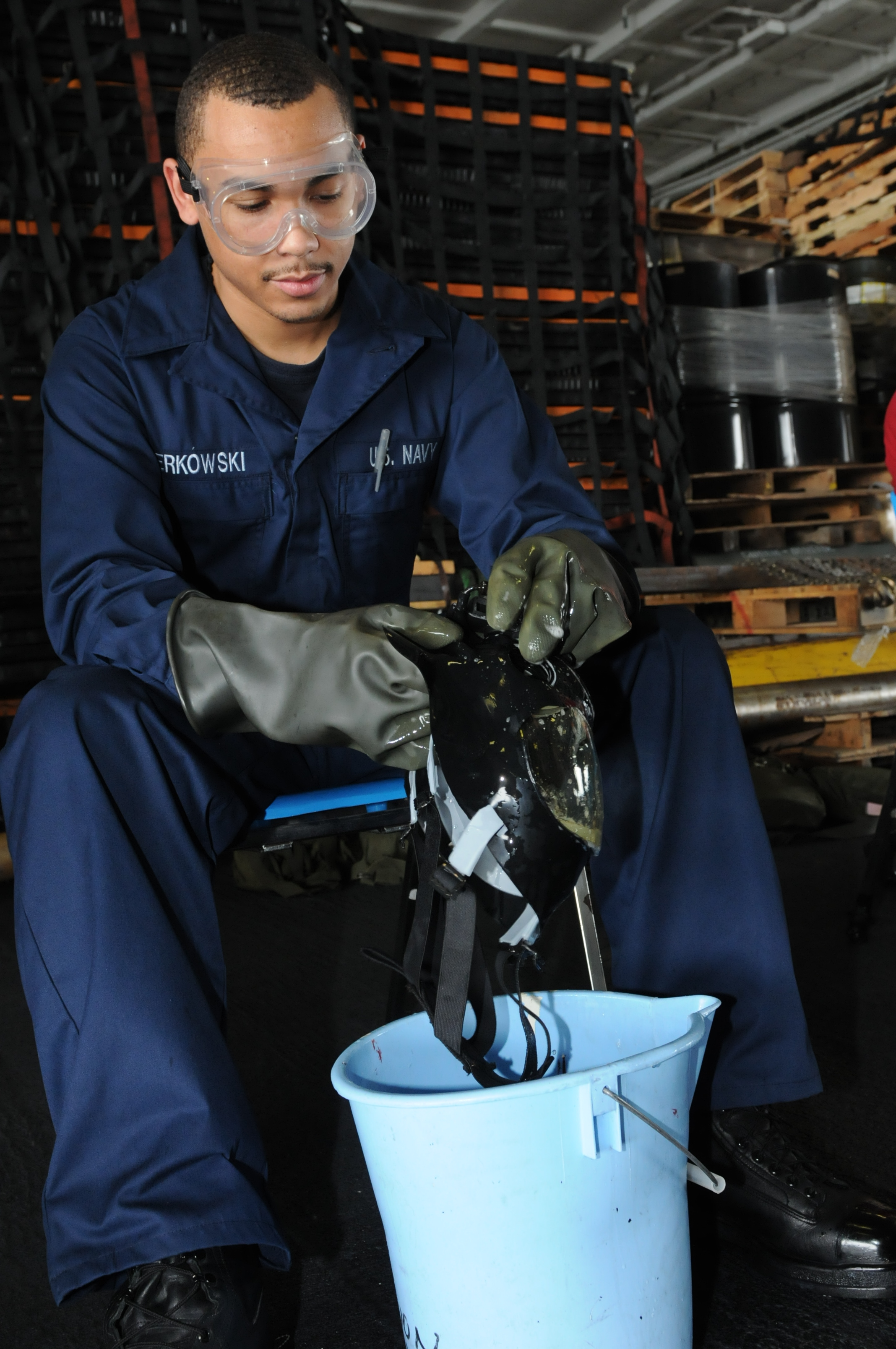 ARABIAN SEA (July 30, 2011) Aviation Boatswain's Mate Airman Rusty D. Derkowski cleans a gas mask in the hangar bay aboard the aircraft carrier USS George H.W. Bush (CVN 77). George H.W. Bush is deployed to the U.S. 5th Fleet area of responsibility on its first operational deployment conducting maritime security operations and support missions as part of Operations Enduring Freedom and New Dawn. (U.S. Navy photo by Mass Communication Specialist Seaman Molly Treece/Released) 110730-N-YC505-134